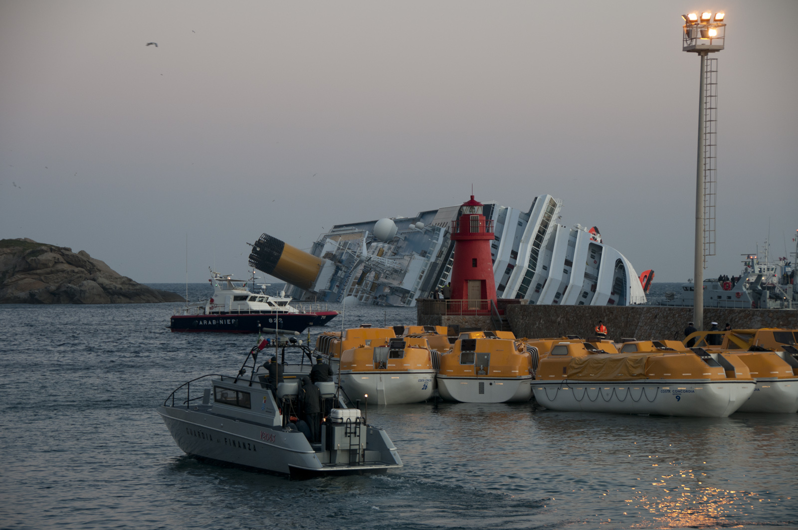 Collision of Costa ConcordiaUno dei mezzi della Guardia di Finanza mentre si dirige sul luogo delle operazioni Information about Costa Concordia may be found at IMO 9320544.A ship can change name and flag state through time, but the IMO number remains the same through the hull's entire lifetime. As a result, it can be useful to identify a ship by using the IMO number.